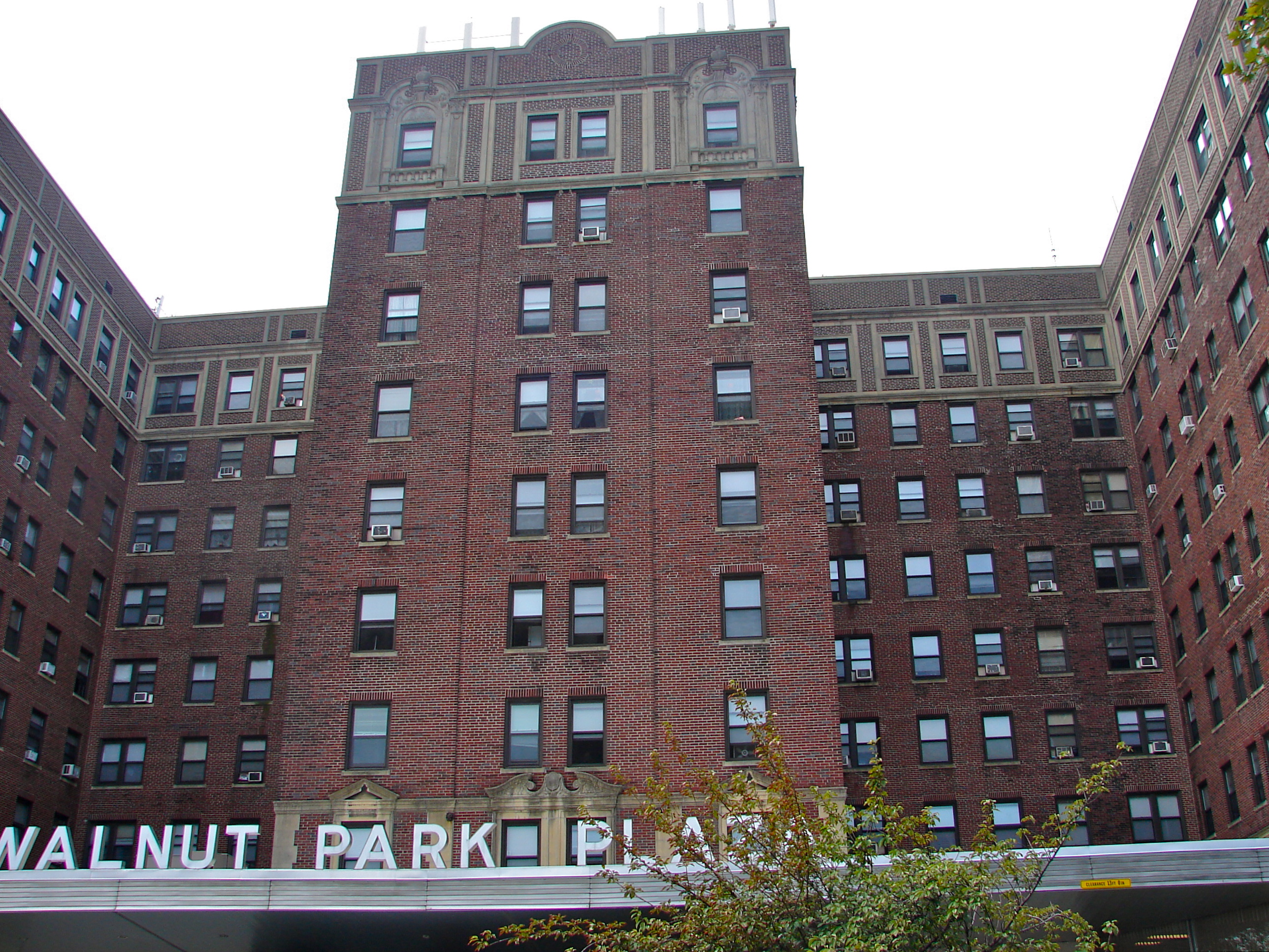 Walnut Park Plaza Hotel in Philadelphia on the NRHP since May 10, 2005. At 6232–6250 Walnut Street in the Cobbs Creek neighborhood of West Philly.